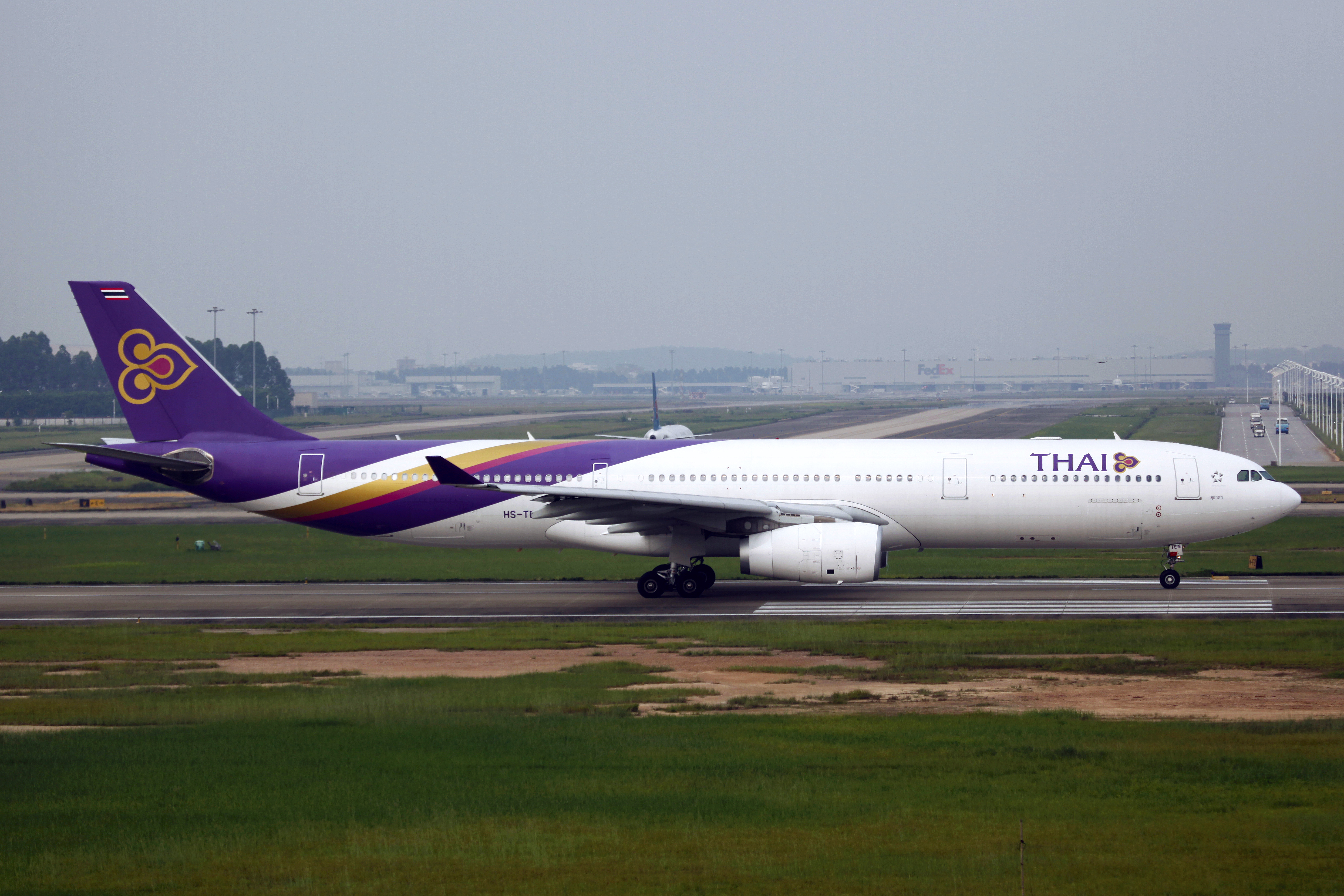 HS-TEN | Thai Airways International | Airbus A330-343 | Guangzhou Baiyun International Airport [CAN]